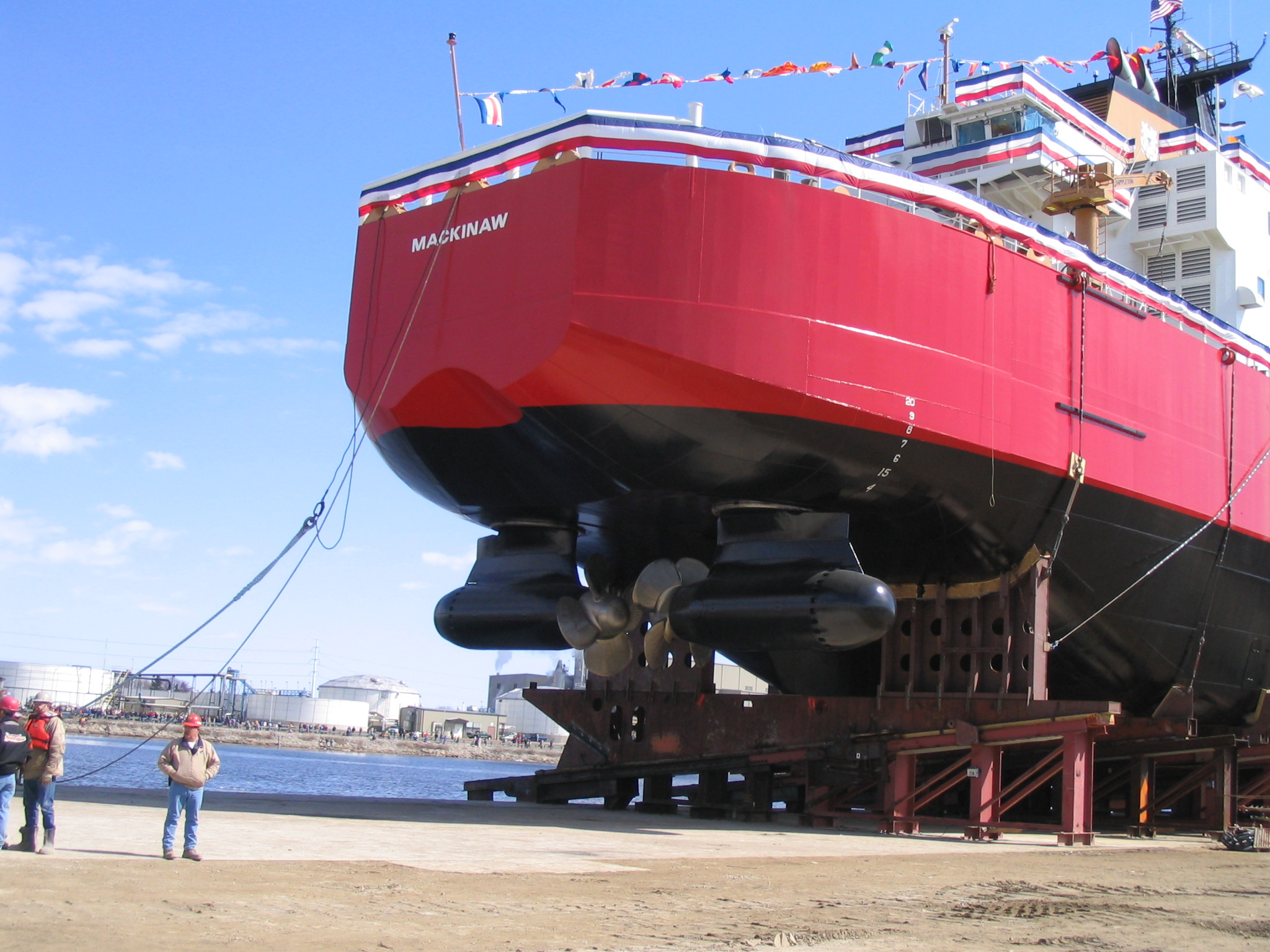 I was privileged to attend the launch of the USCGC Mackinaw (WLBB-30) a couple of years ago and was close enough to snap some cool photos. I thought some of my Flickr friends would enjoy seeing these.